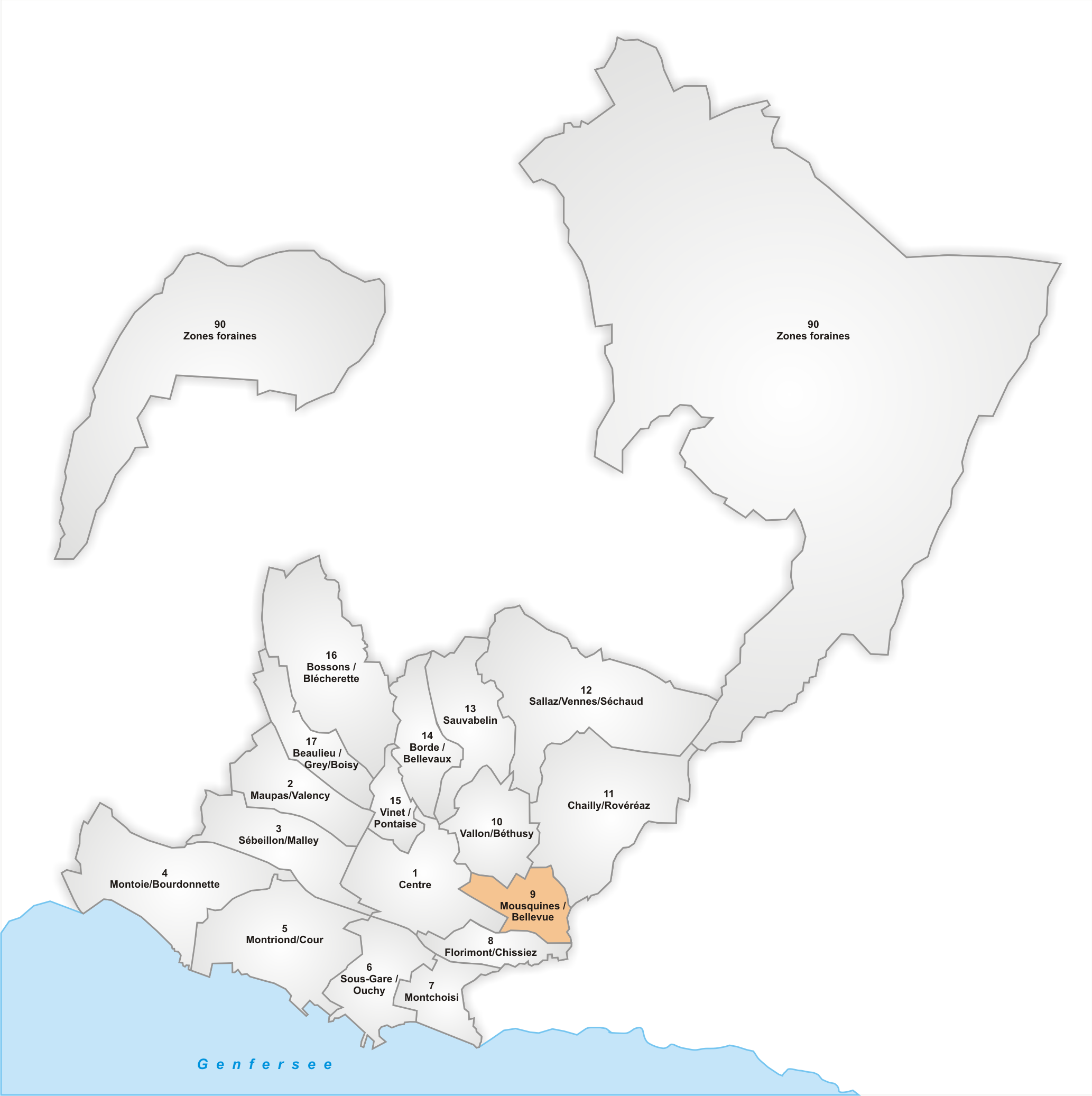 Lausanne Quarter 9